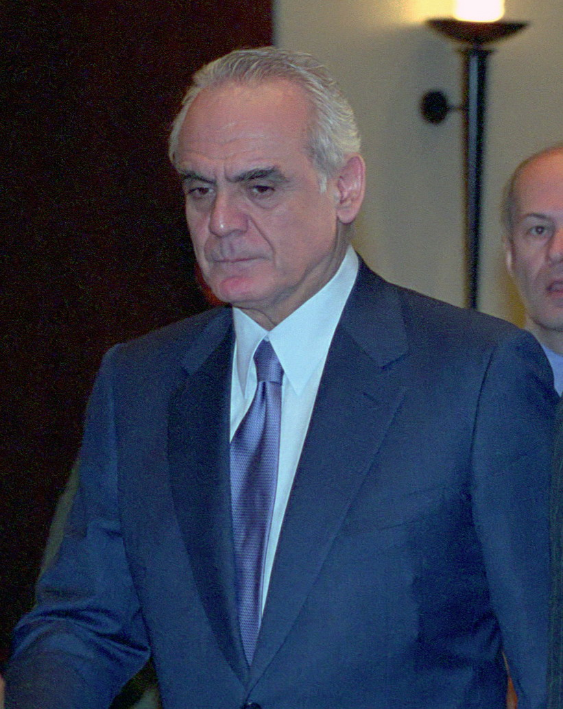 Apostolos Tsohatzopoulos, ex Greek Minister of Defense. cropped from DD-SC-07-15260.JPG